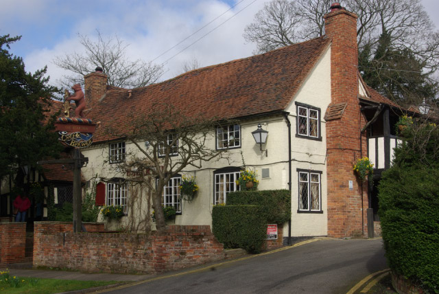 The Bear Inn, Berkswell Popular 16th century inn, now run as part of the Chef & Brewer chain.